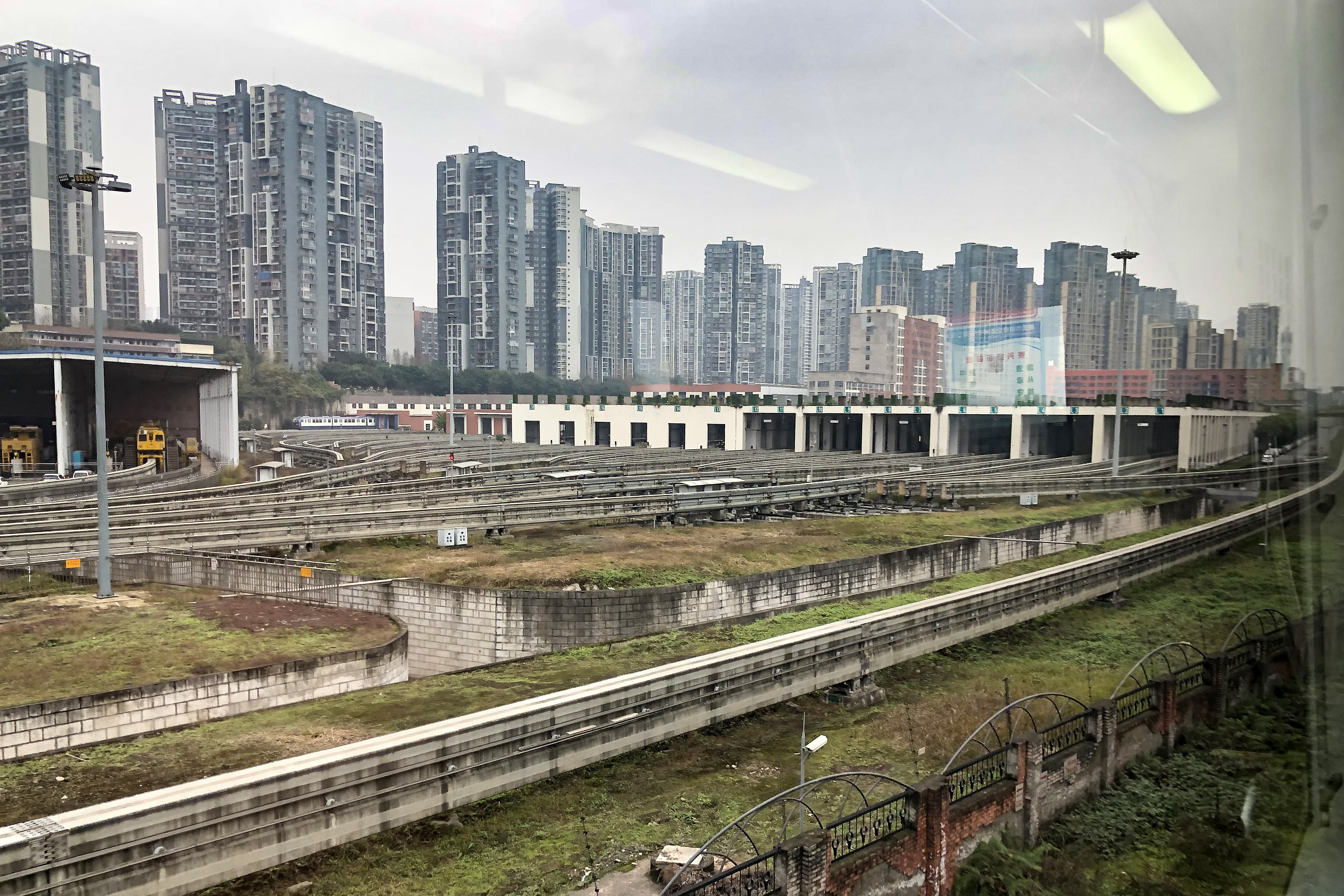 What a depot...